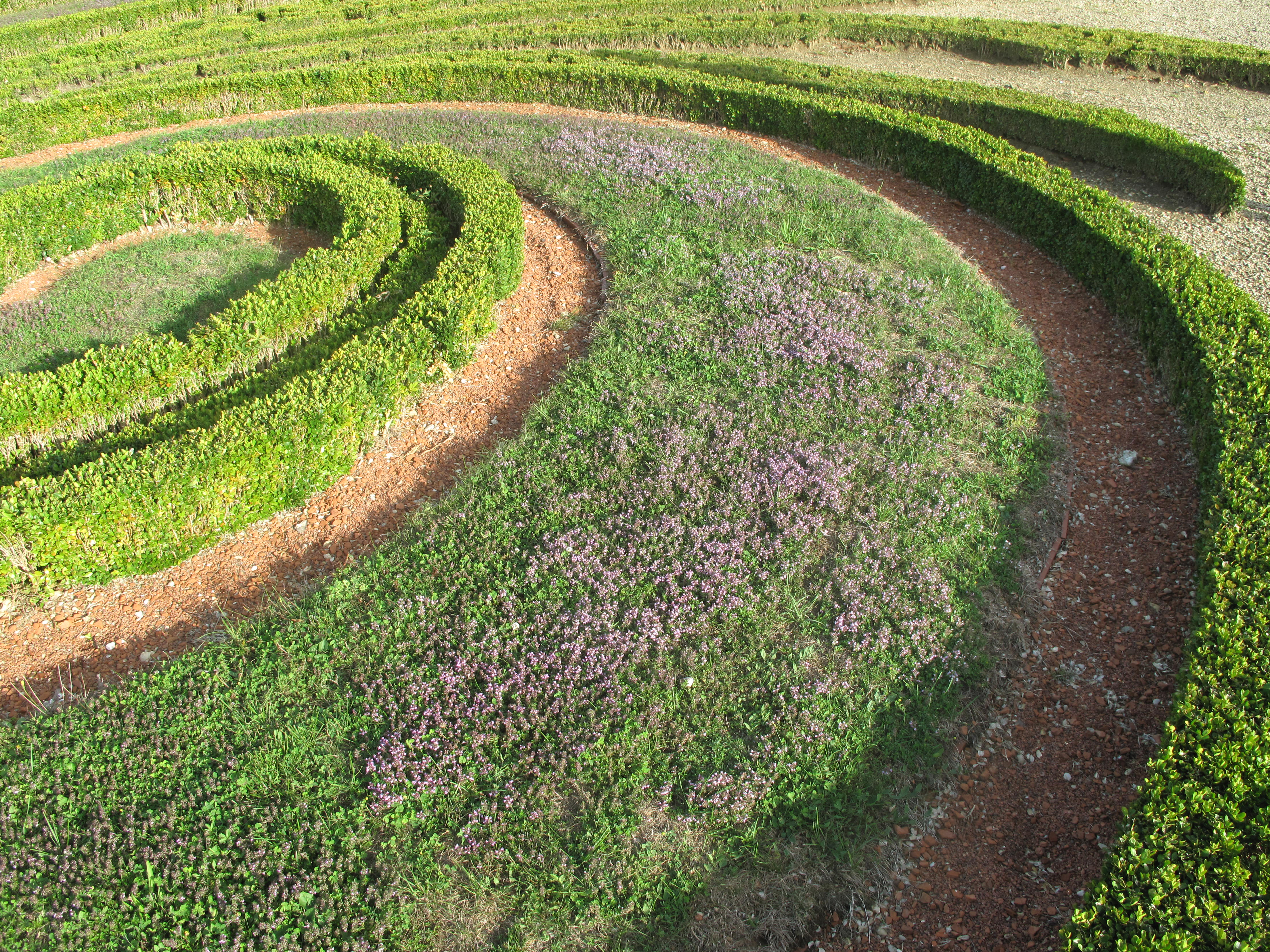 Wild thyme in the flower bed of a "garden à la française" in the park of the castle of Champs-sur-Marne (Seine-et-Marne), France.